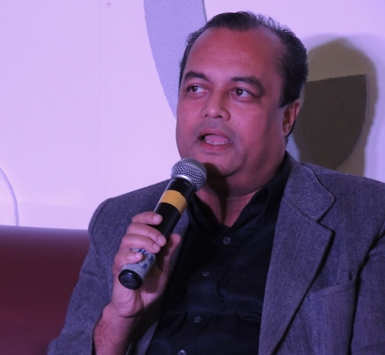 This photo was taken by me on February 8, 2013, when Joygopal Podder had his first Author's Corner event at the Delhi World Book Fair.